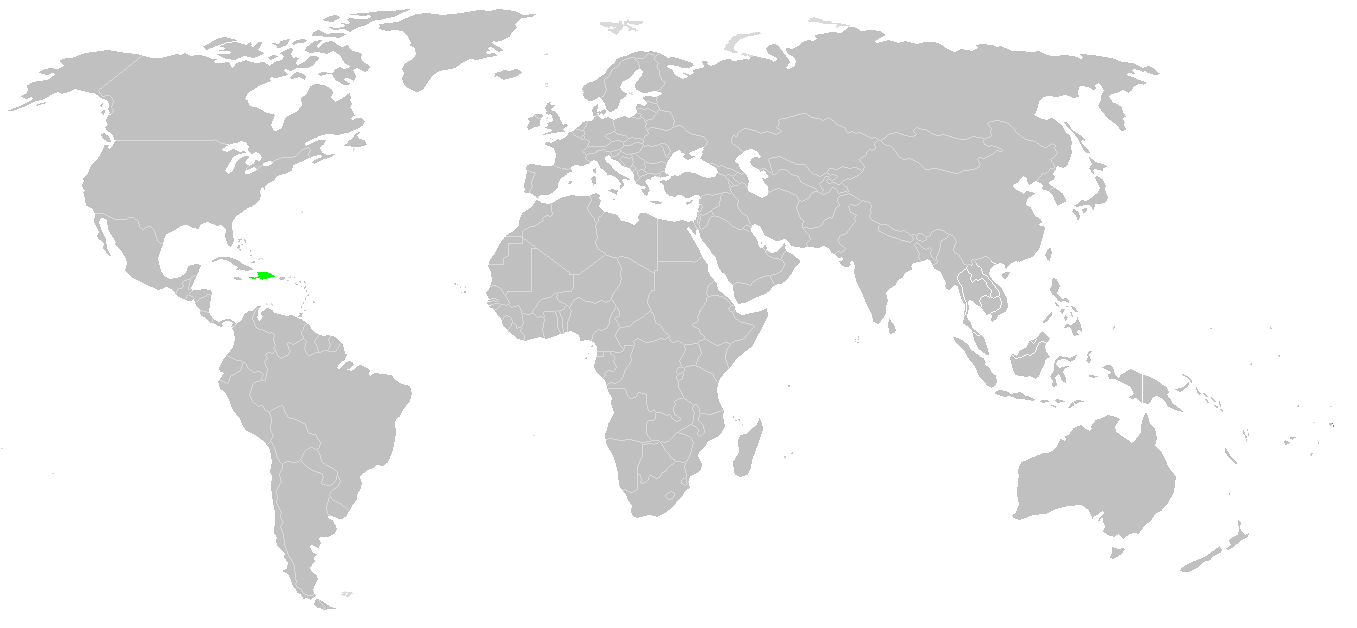 Known world distribution of jumping spider genus Antillattus (Hispaniola).